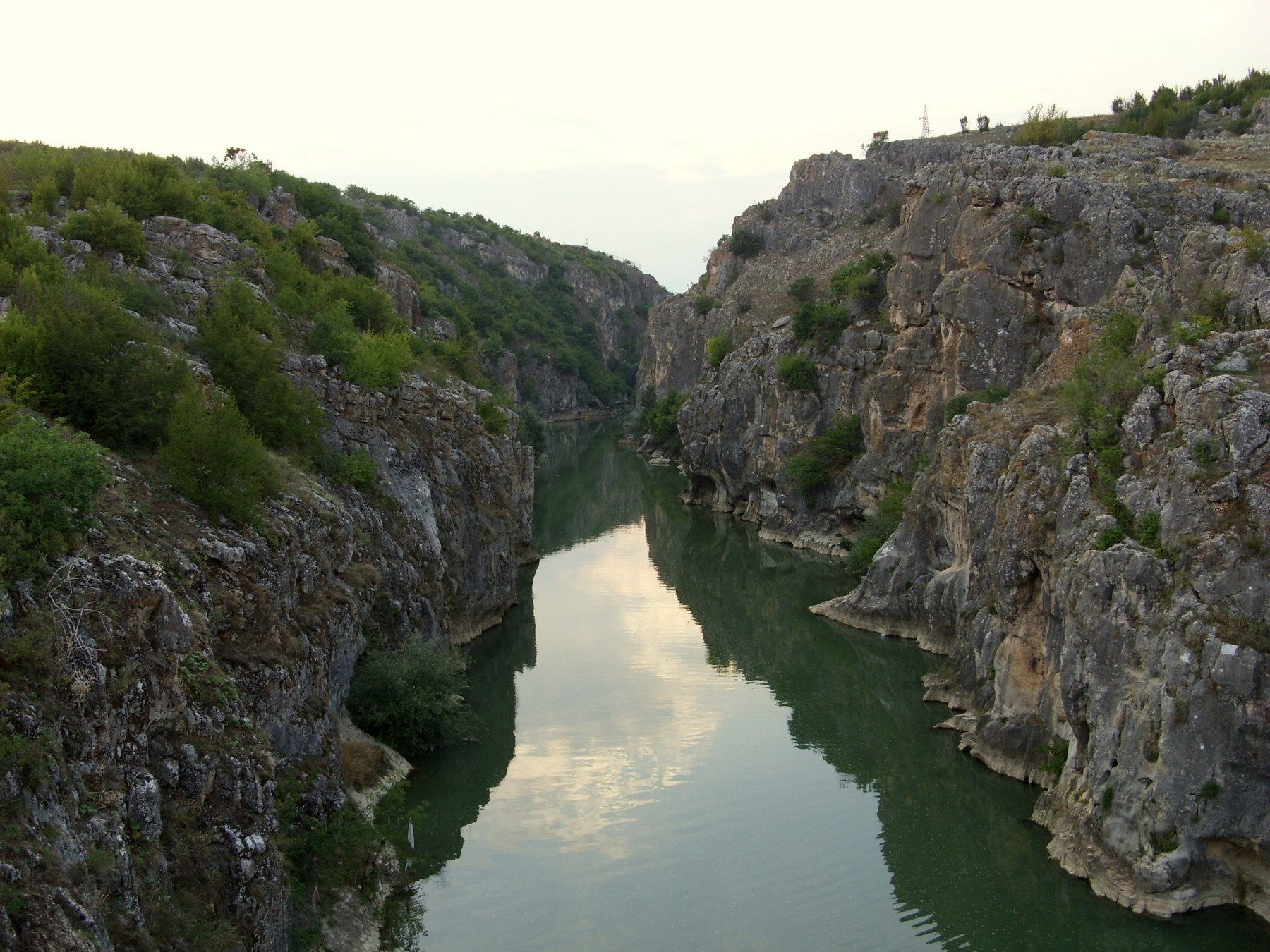 Gap of White Drin River between Prizren and Gjakova, Kosovo. Hornjoserbsce: Předrjeńca Běłeho Drima mjez Prizrenom a Dźakovicu, Kosowo.